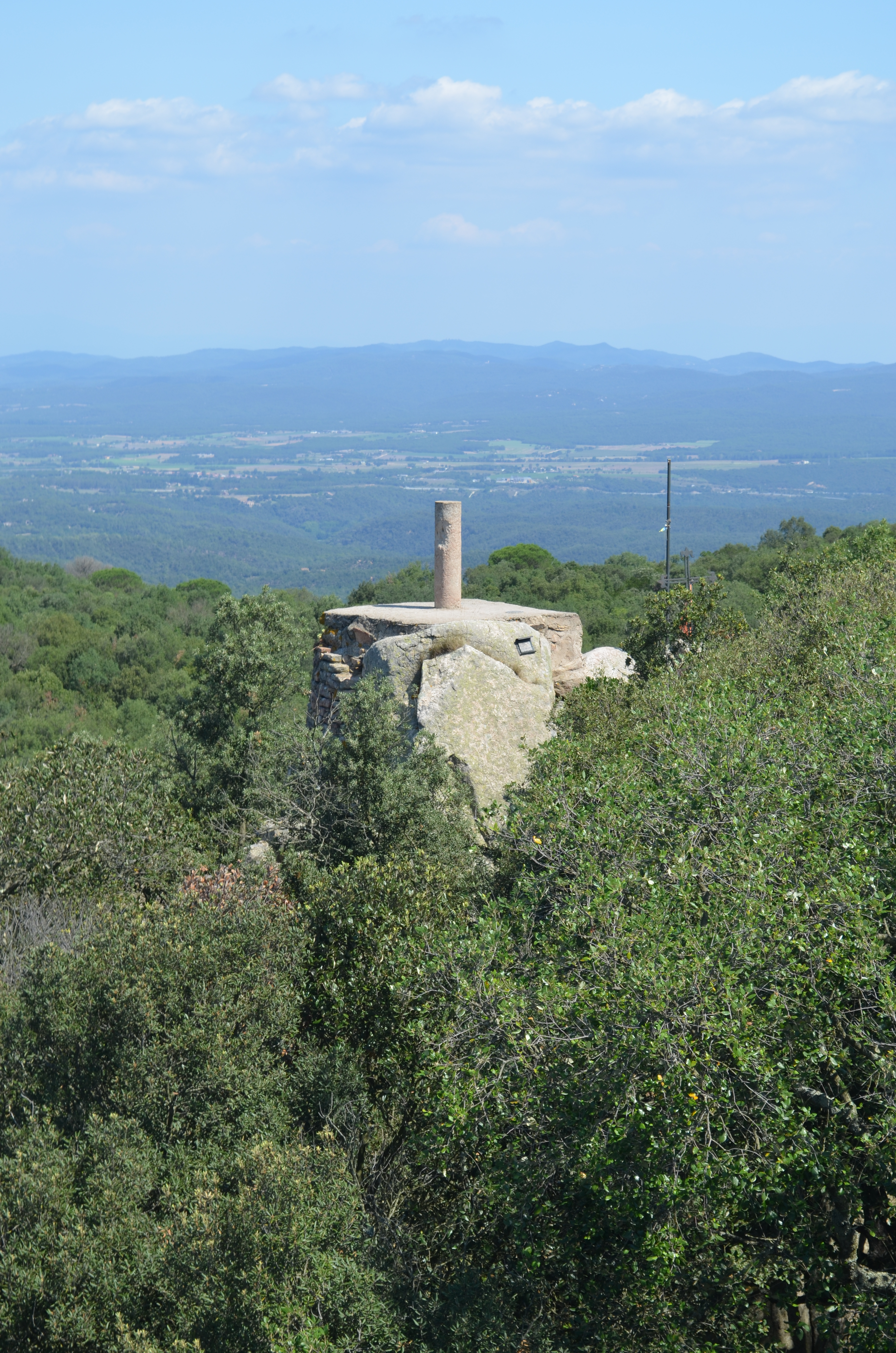 Puig de les Cadiretes, observation platform